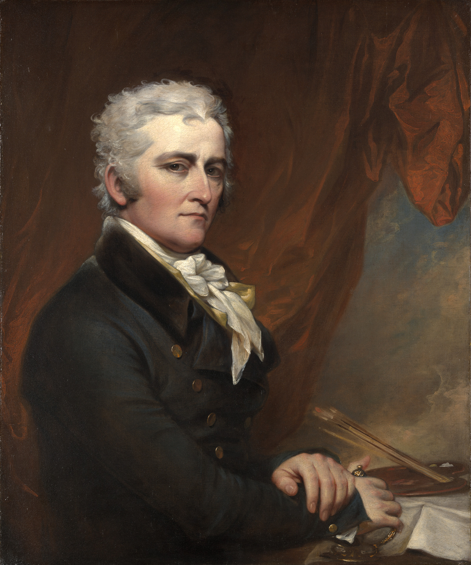 "Self-Portrait," oil on canvas, by the American painter John Trumbull. 29 3/4 in. x 24 9/16 in. Yale University Art Gallery, gift of Marshall H. Clyde, Jr. Courtesy of Yale University, New Haven, Conn.